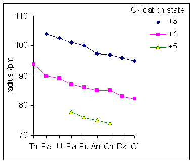 radii of actinide elements